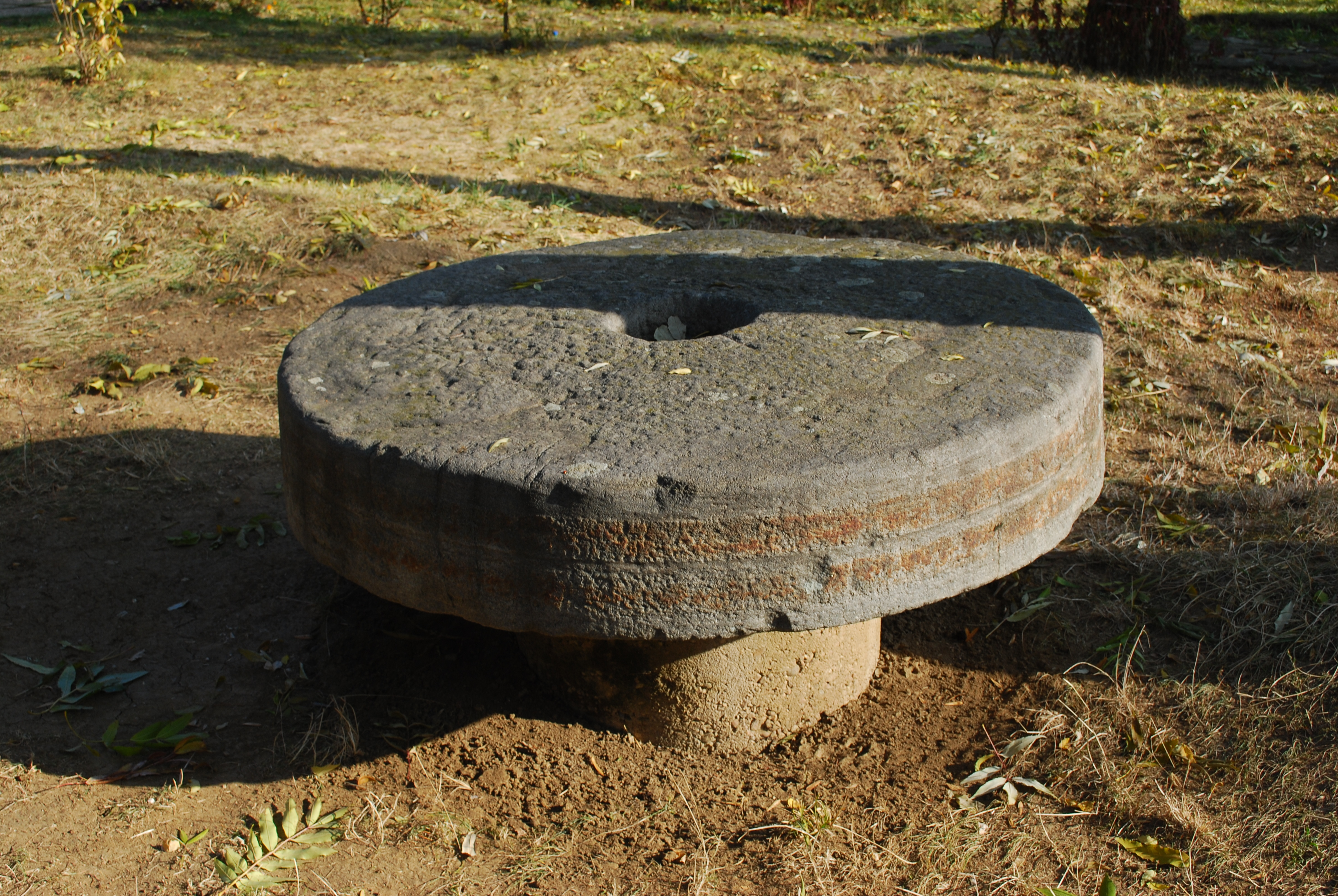 1773 church from Răpciuni, Neamţ County, Romania, exhibited in the Village Museum in Bucharest. Stone table.